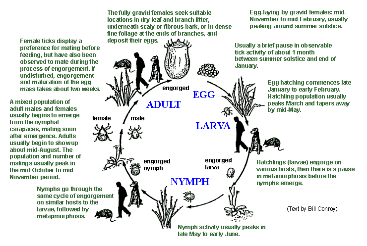 Lifecycle of Ixodes holocyclus